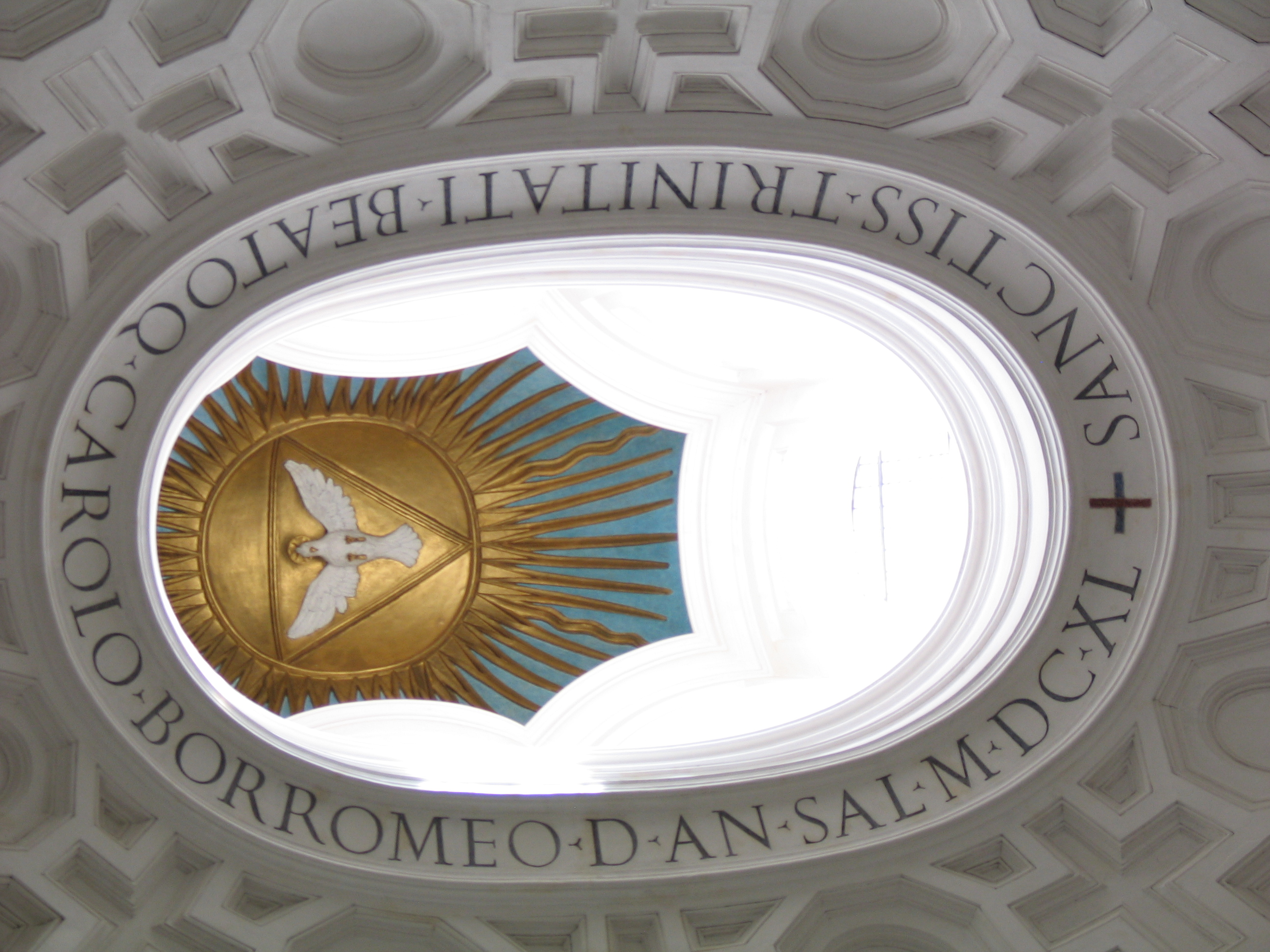 The entrance of daylight via the lantern has a dramatic effect on the image of the Holy Ghost.